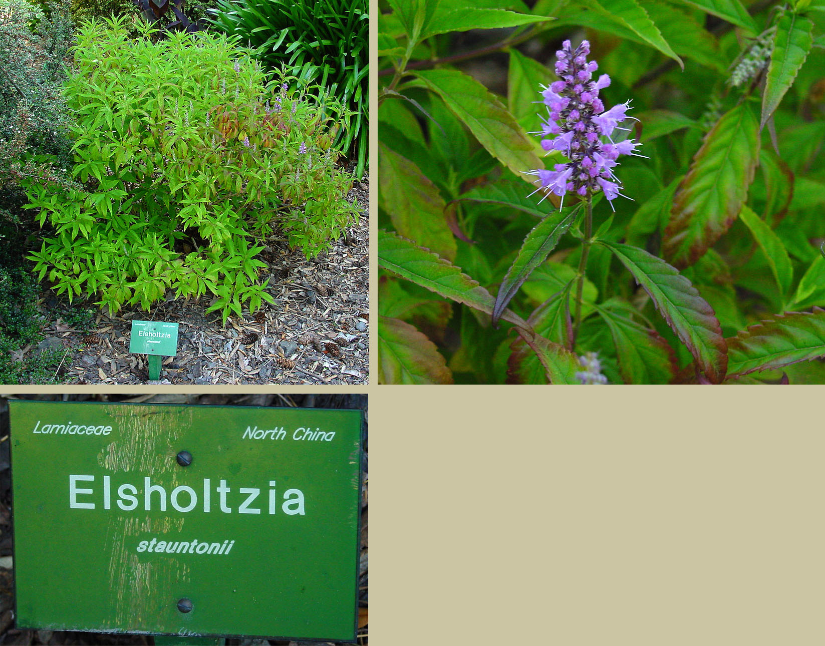 Elsholtzia stauntonii in the botanic garden in Christchurch, New Zealand. - OpenStreetMap(Info)